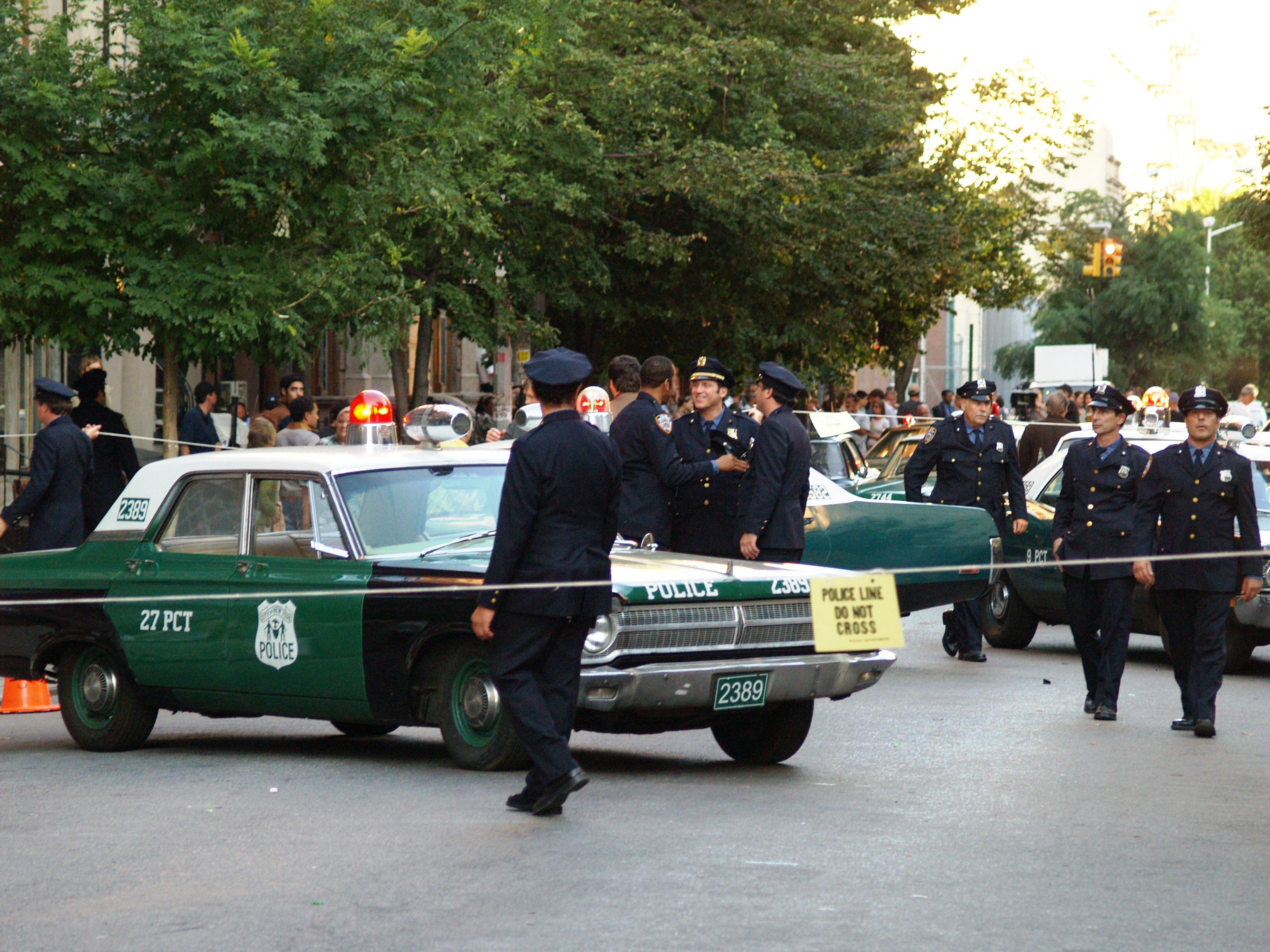 Filming a period piece movie, with antique police cars, in the East Village, New York City. East 4th Street between A and B.